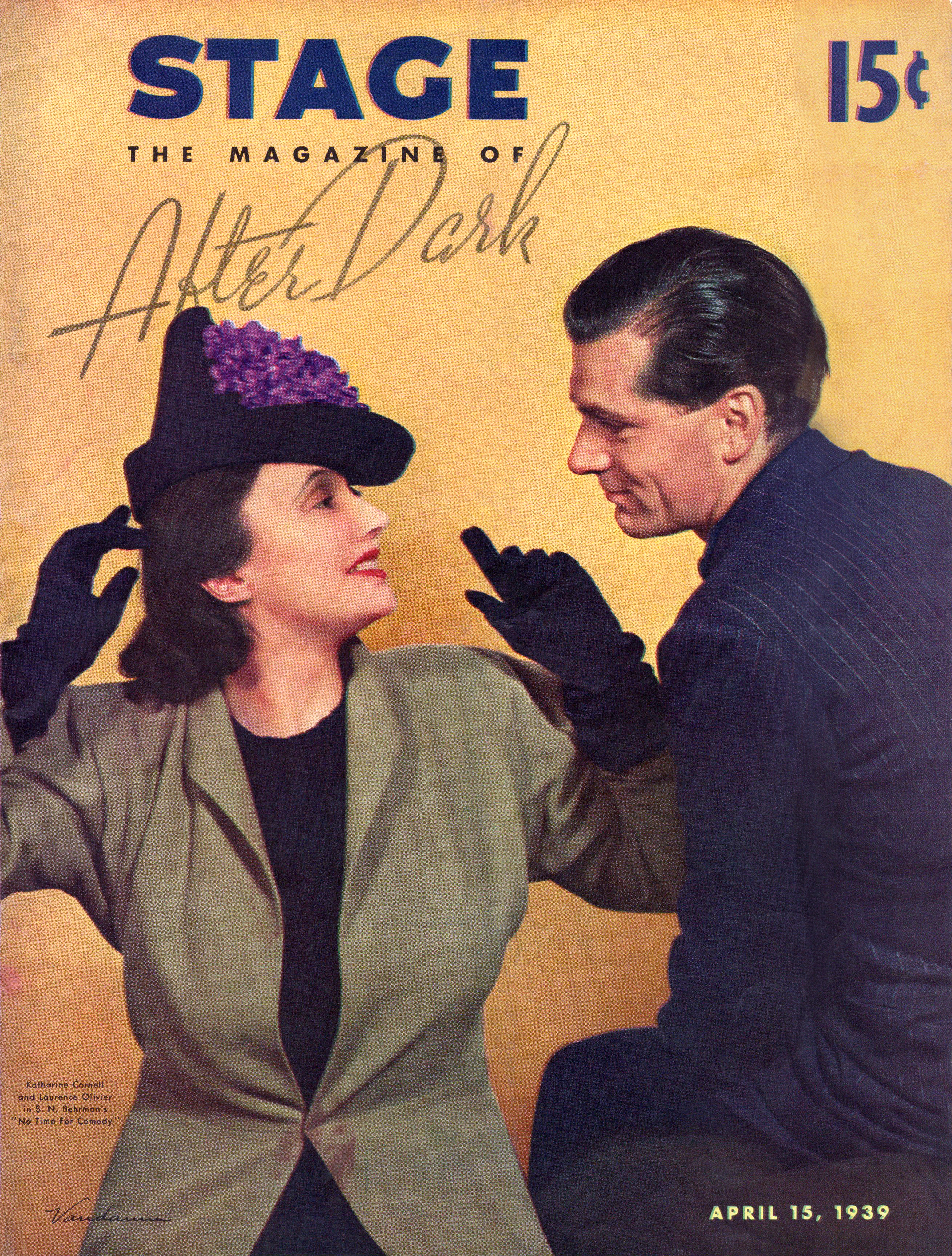 Front cover of Stage featuring a photograph of Katharine Cornell and Laurence Olivier in the Broadway production of S. N. Behrman's play No Time for Comedy